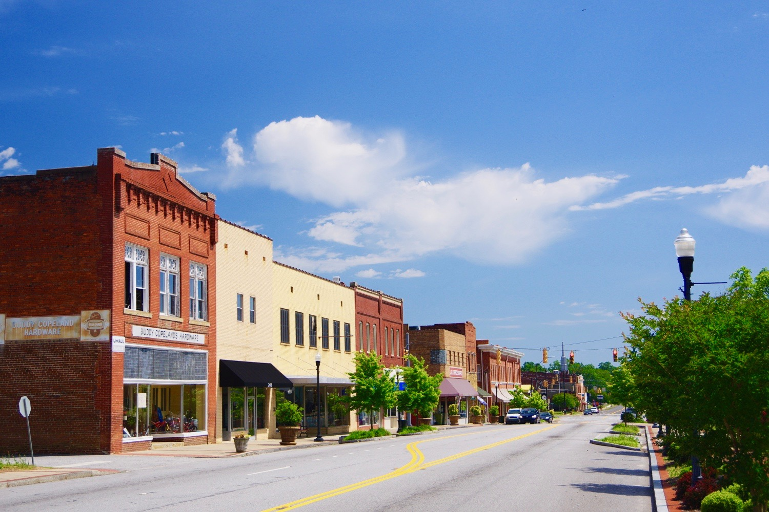 Buildings along Broad Street in Clinton, South Carolina, United States.